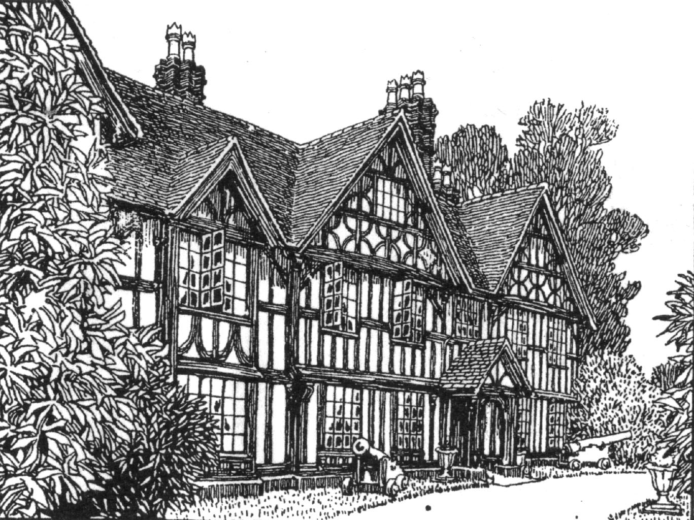 Etching of Barnt Green House in the early 19th Century taken from the Victoria History of Worcestershire published 1902.